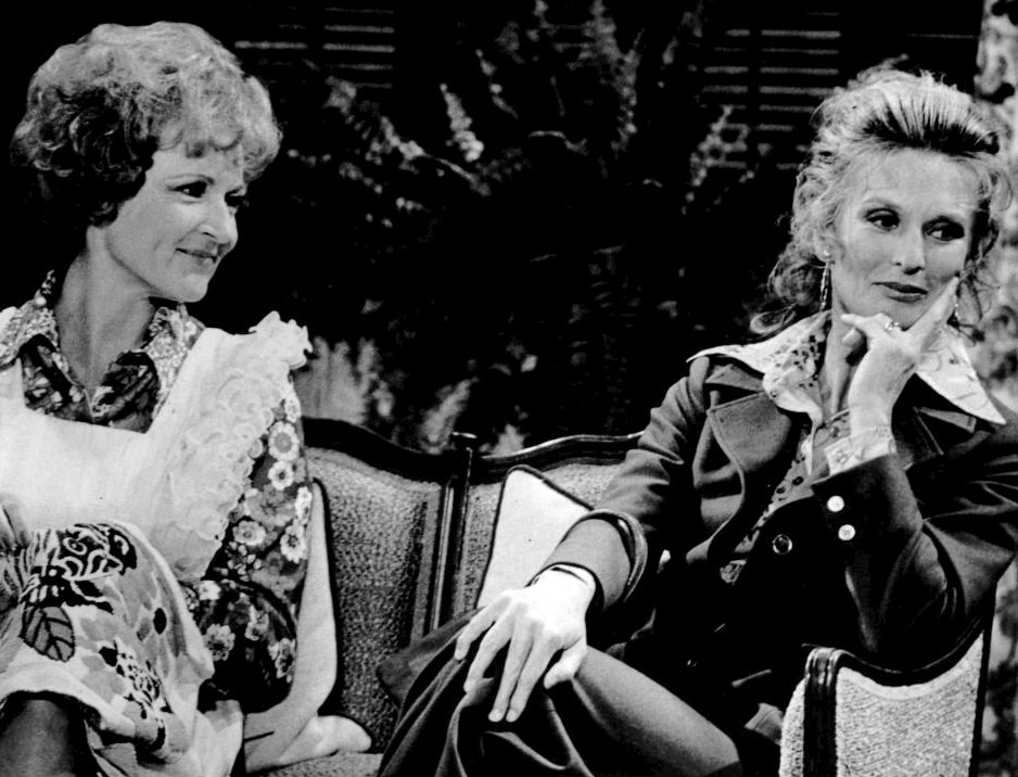 Photo of Betty White as Sue Ann Nivens and Cloris Leachman as Phyllis Lindstrom from the television program The Mary Tyler Moore Show.